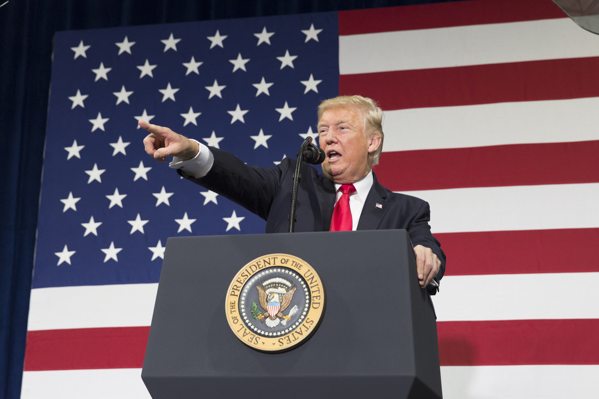 President Donald J. Trump participates in a tax reform kickoff event at the Loren Cook Company, Wednesday, August 30, 2017, in Springfield, Missouri. (Official White House Photo by Joyce N. Boghosian)